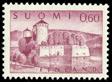 Postage stamp depicting the Finnish Olavinlinna castle.